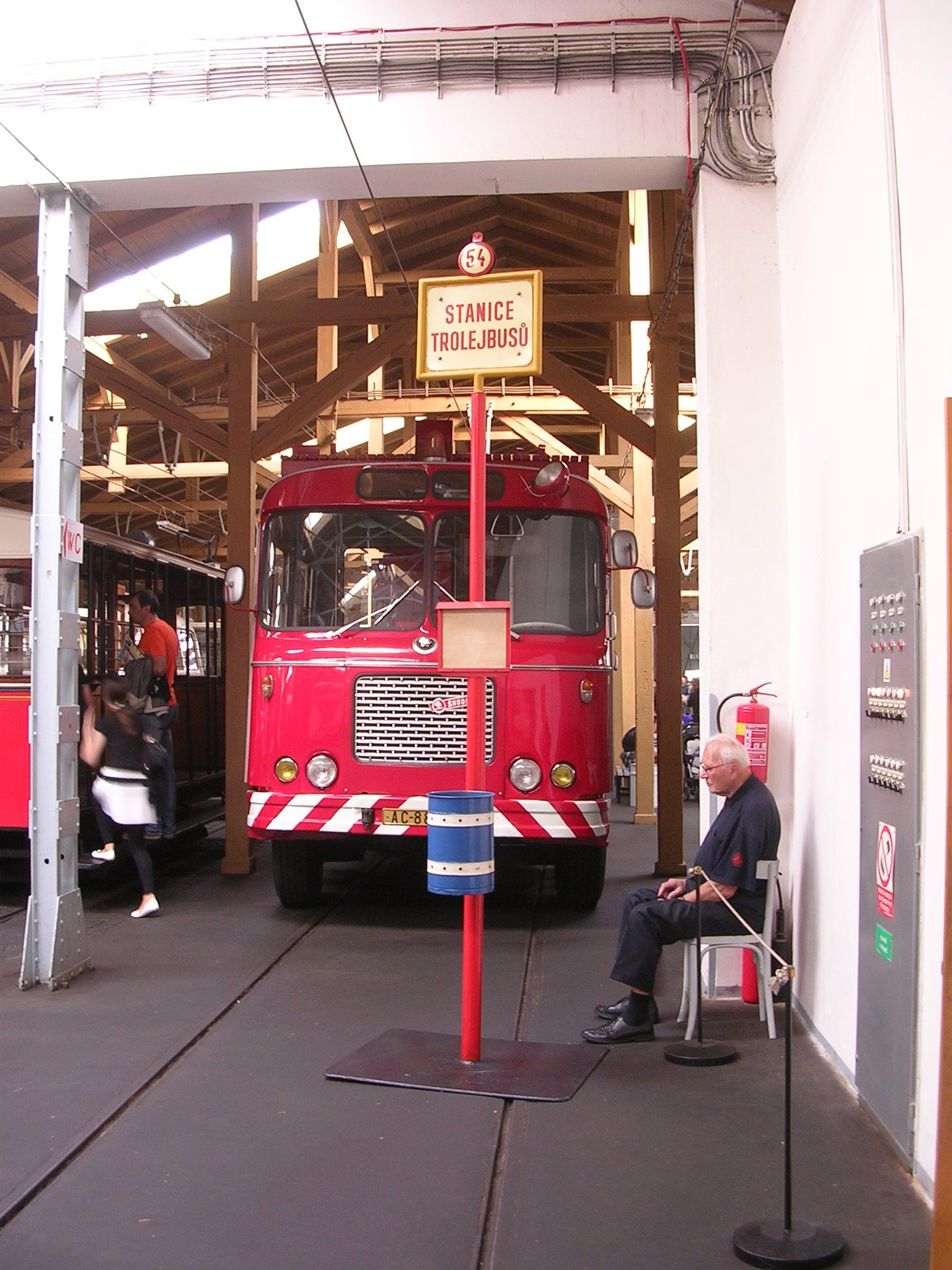 Střešovice, Prague, the Czech Republic. Střešovice tram depot and transport museum. Overhead lines service vehicle.